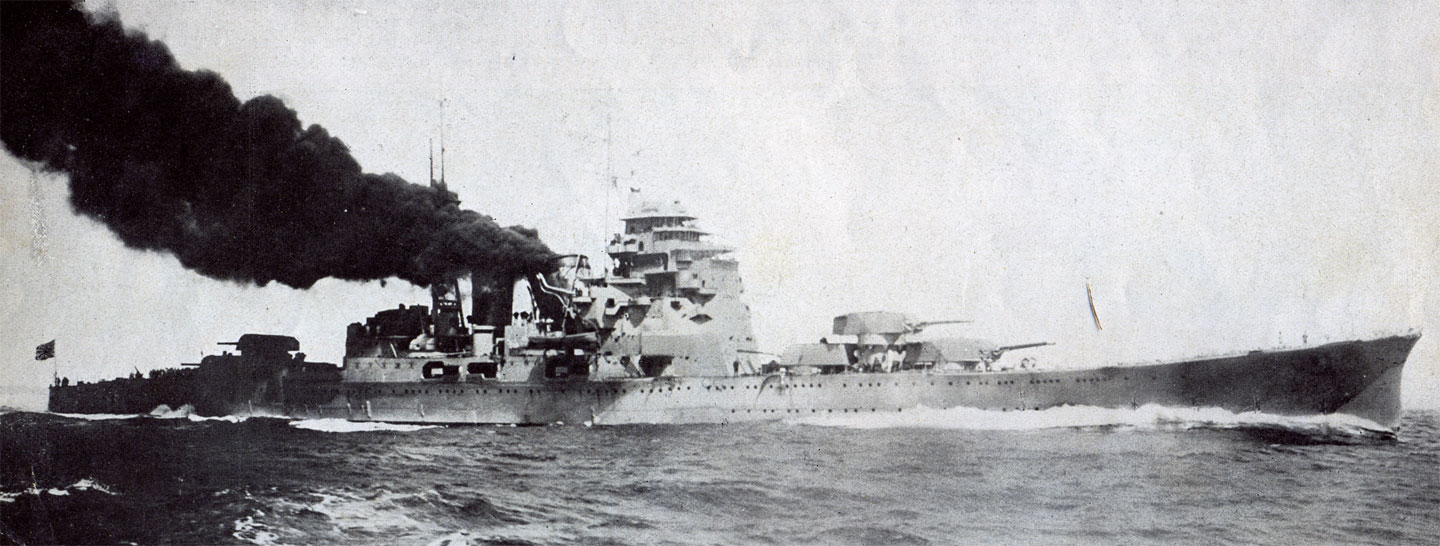 重巡洋艦・摩耶IJN Heavy Cruiser Maya